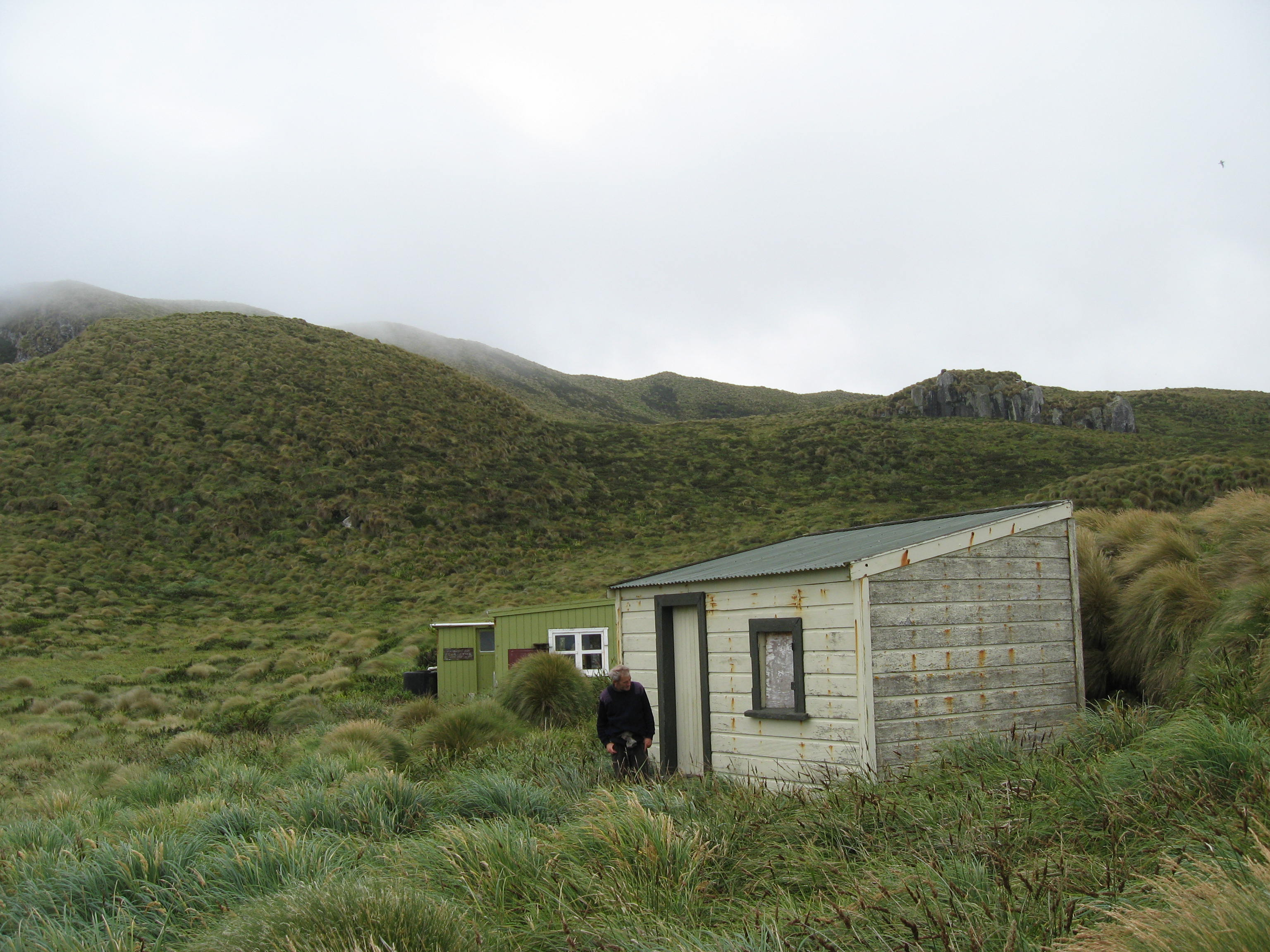 Old Castaway hut in the North of Antipodes Islands, New Zealand